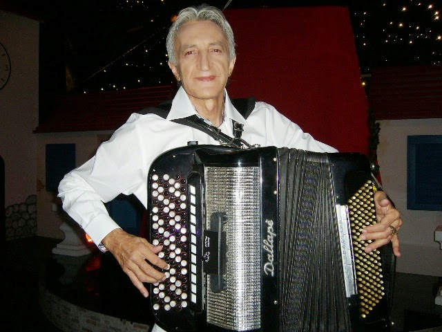 Mirko Kodić